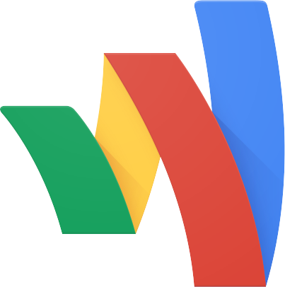 Logo of Google Wallet, introduced in September 2015.